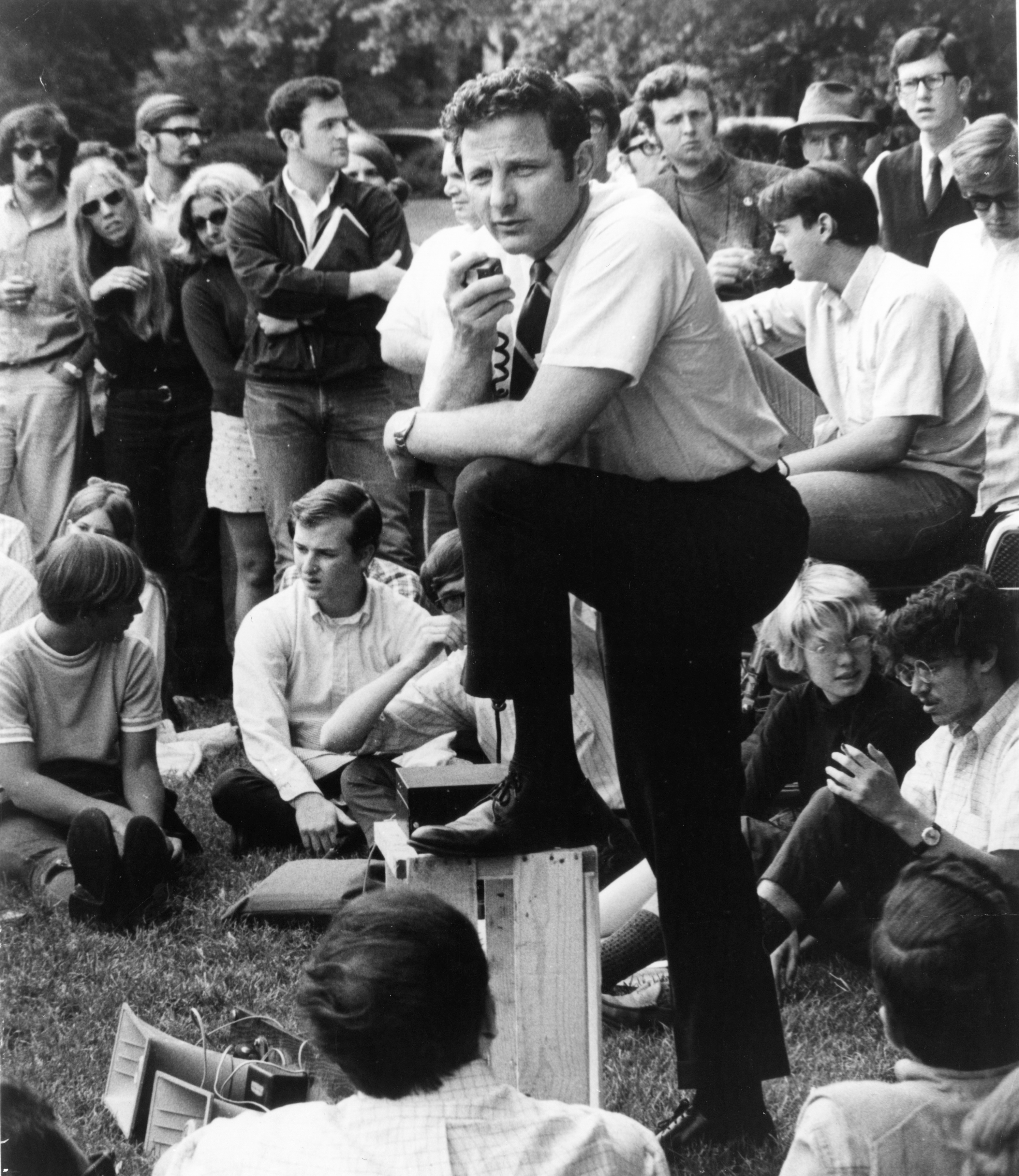 Senator Birch Bayh (D-IN) addresses a group of students, ca. 1970s.